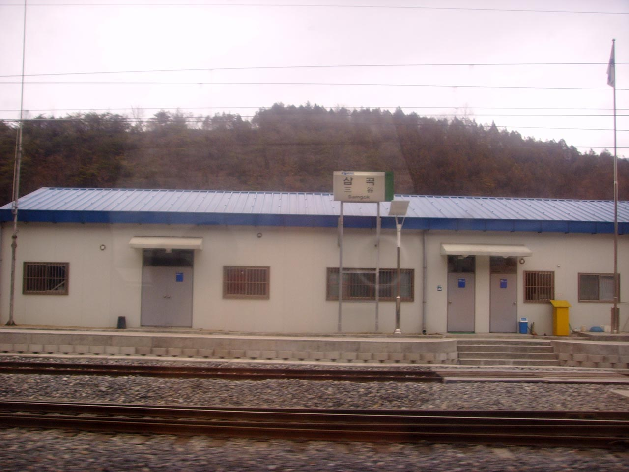 Jungang Line Samgok Station